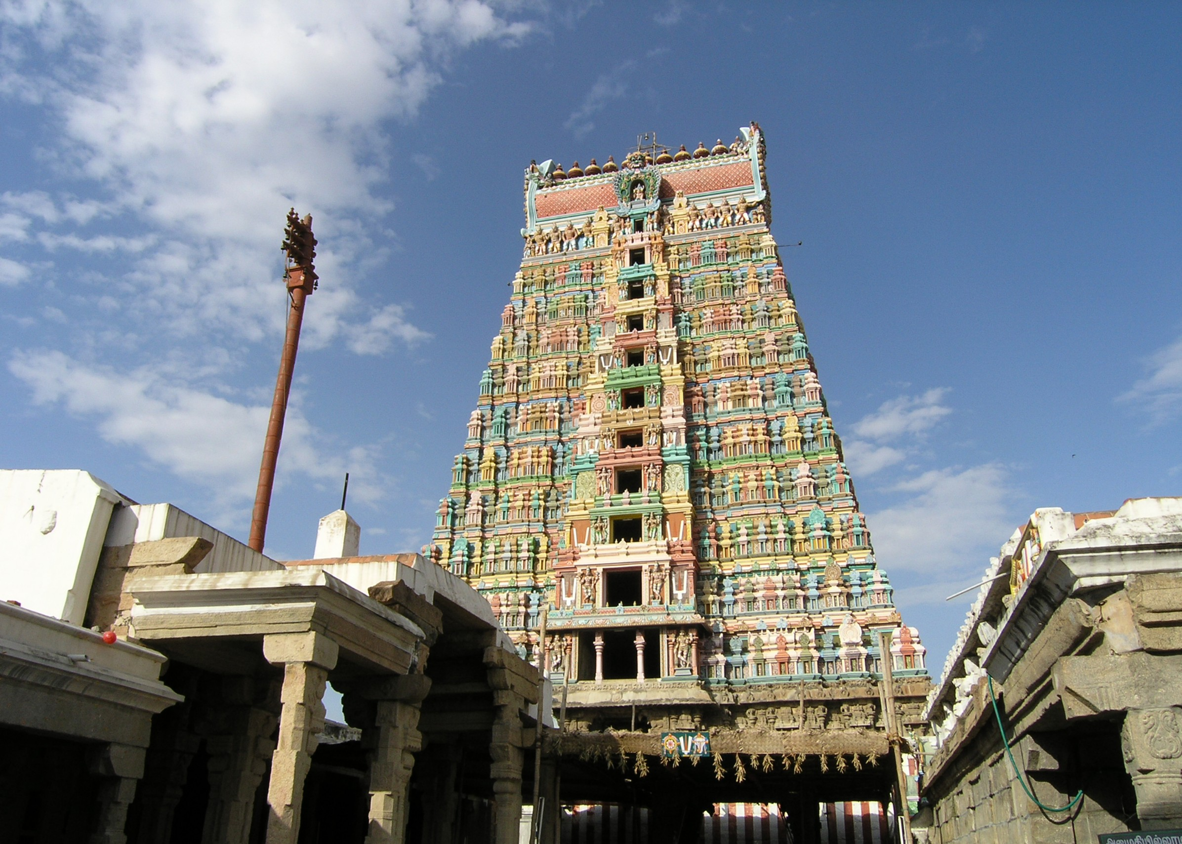 Srivilliputtur Andal Temple Tower